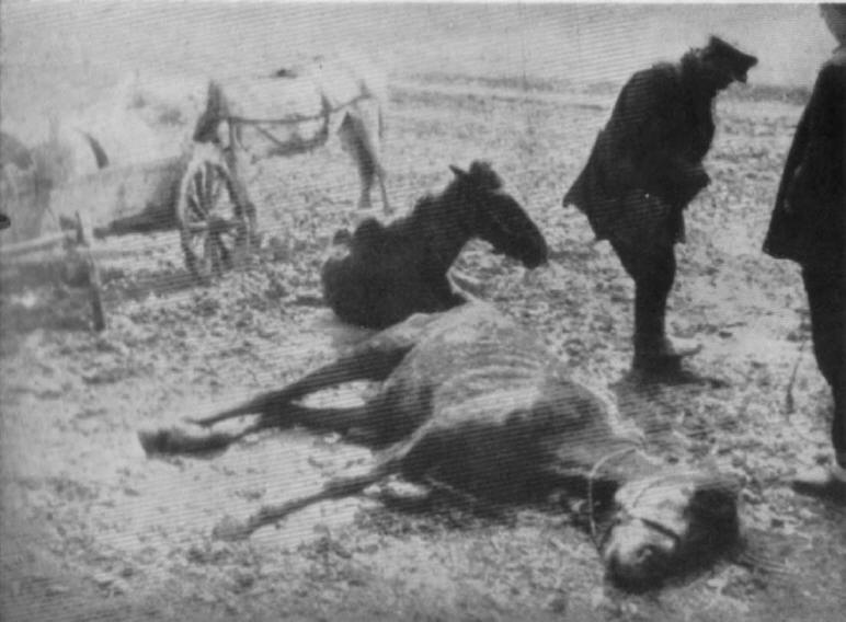 Illustration of the magazine Forum (Canada). № 54, 1983.